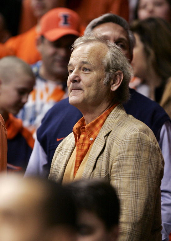 "Bill Murray next to Coach Zook (...)" (comment on flickr)